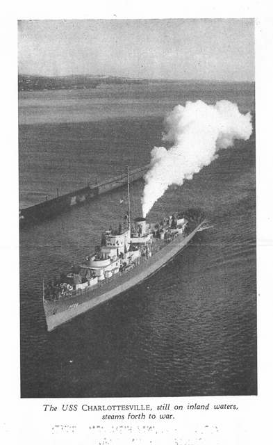 A photo of USS Charlottesville from "Pursuits of War: The People of Charlottesville and Albemarle County, Virginia, in the Second World War", by Gertrude Dana Parlier and Others, Edited by W. Edwin Hemphill, published by the Albemarle Charlottesville Historical Society, 1948.